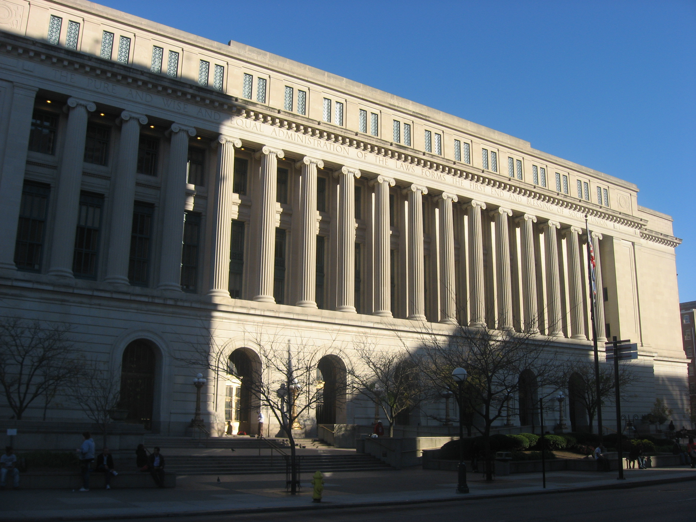 Western front of the Hamilton County Courthouse, located in the block bounded by Main, Ninth, and Sycamore Streets and Central Parkway (U.S. Route 42) in downtown Cincinnati, Ohio, United States. It was built in 1915.